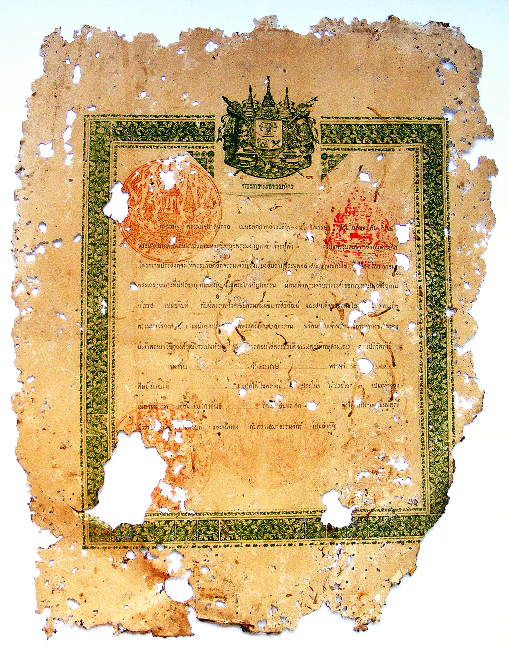 graduate in Siam Buddhist theology degree (1910). this degree meets at Wat Khung Taphao, Ban Khung Taphao, Khung Taphao subdistrict, Mueang Uttaradit, Uttaradit Province, Thailand.) on December 2, 2008. "รายนามพระสงฆ์สามเณร ที่สอบไล่ได้ รัตนโกสินทรศก ๑๒๙ ซึ่งได้รับพระราชทานพัดเปรียญ" (in Thai). Royal Gazette 28 (0 ก): 2245. January 14 1911